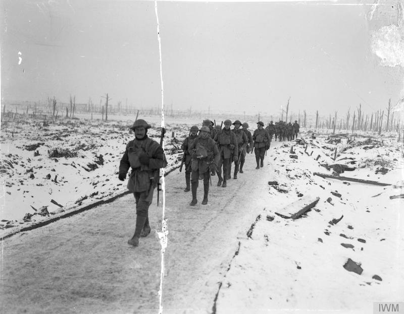 The British Army on the Western Front, 1914-1918 The 2/7th Battalion, Manchester Regiment coming out of the trenches, Menin Road, 27 December 1917.